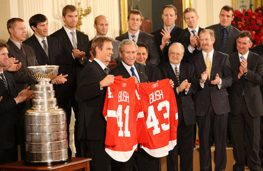 2008 Stanley Cup Champion Detroit Red Wings present jerseys to President of the United States George W. Bush